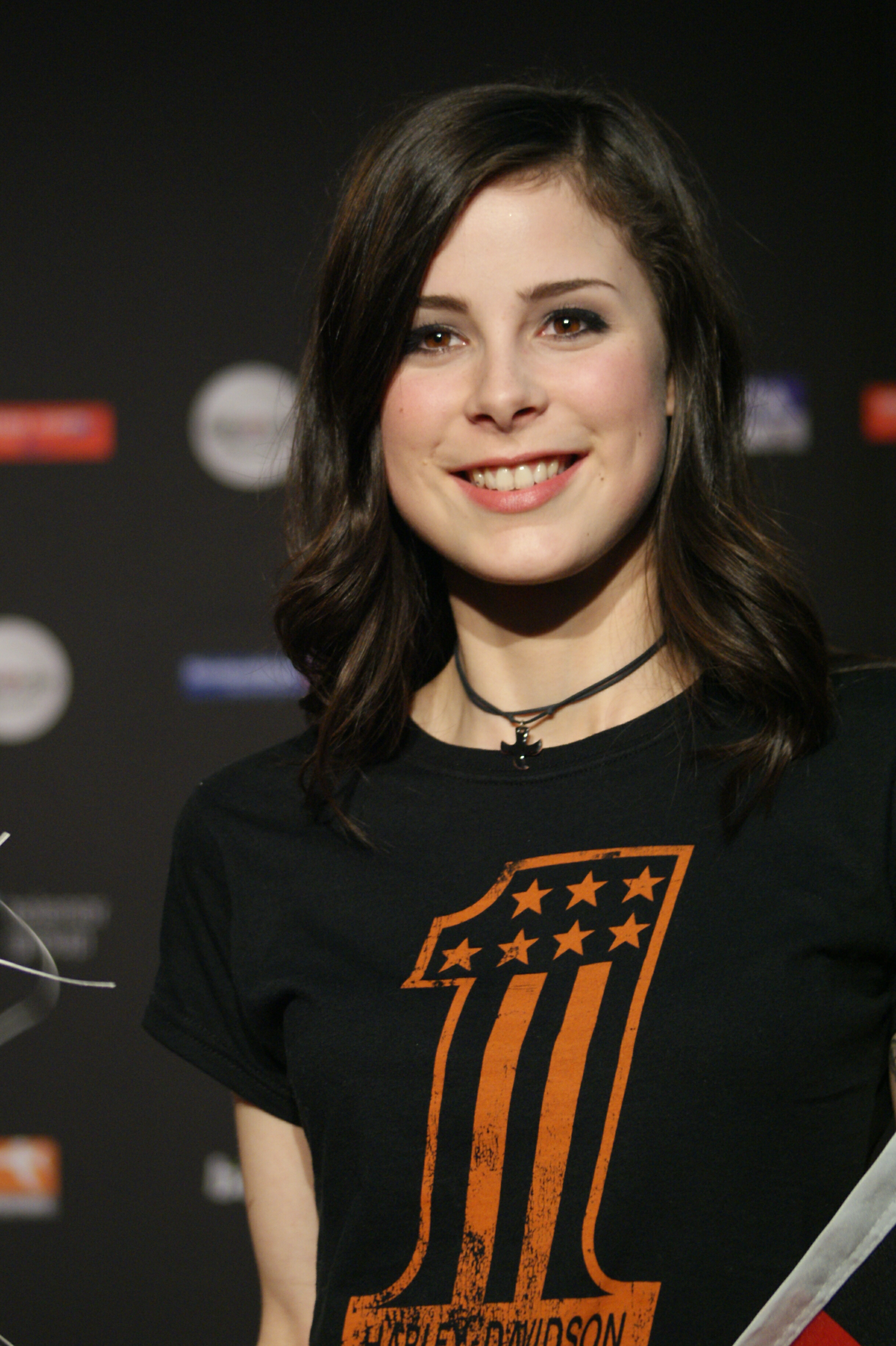 Lena Meyer-Landrut as № 1 at the press conference after the Eurovision Song Contest Oslo 2010